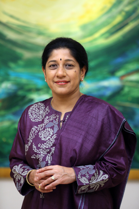 This is the official picture of Ms. Mallika Srinivasan, Chairman & CEO, TAFE. Purbochol Notion Dehra Housing Design & Constructions Limited